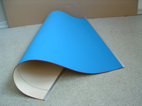 blanket